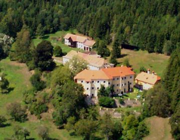 Pichlschloss and adjacent buildings